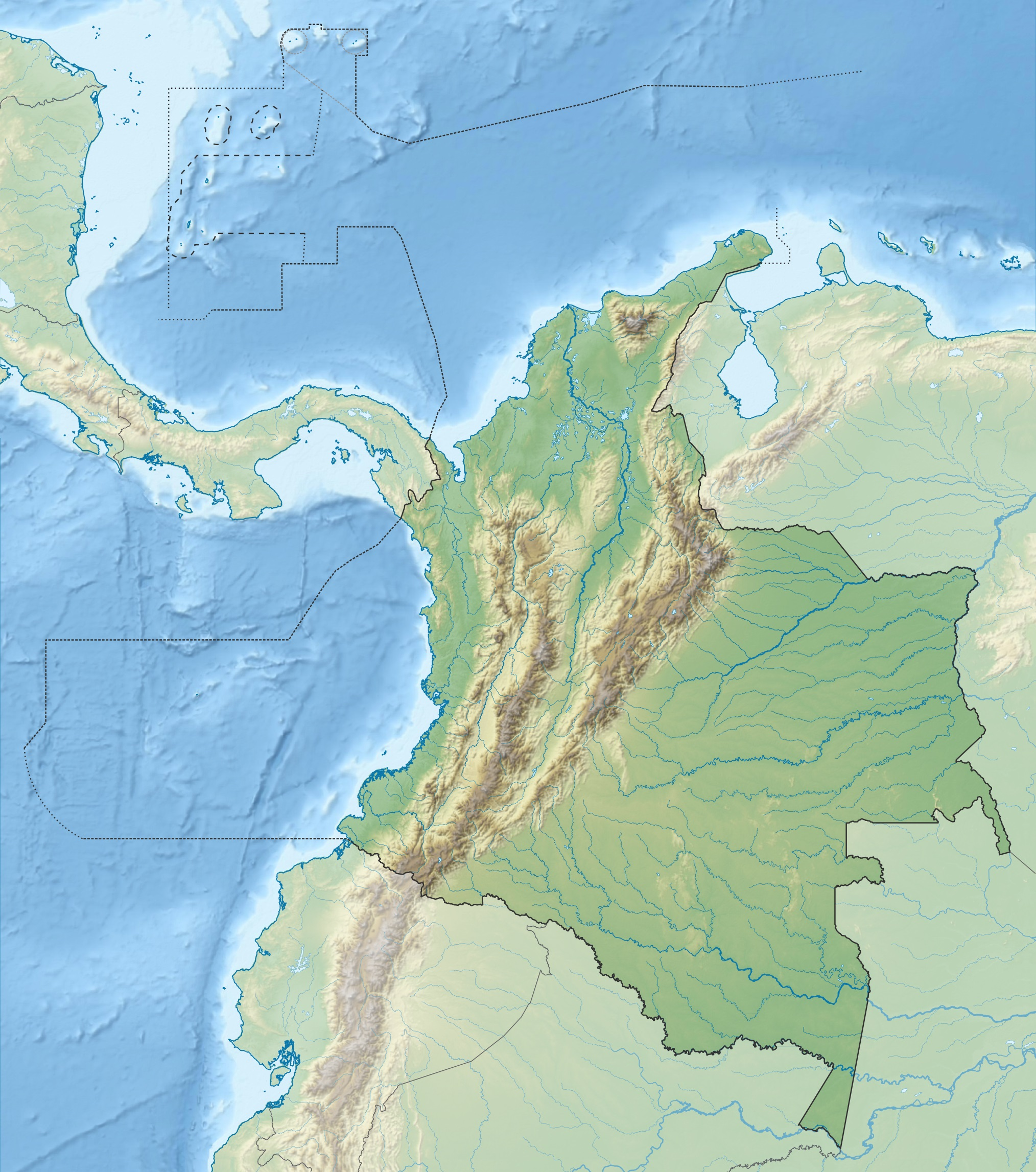 Physical Location map of Colombia Equirectangular projection. Geographic limits of the map